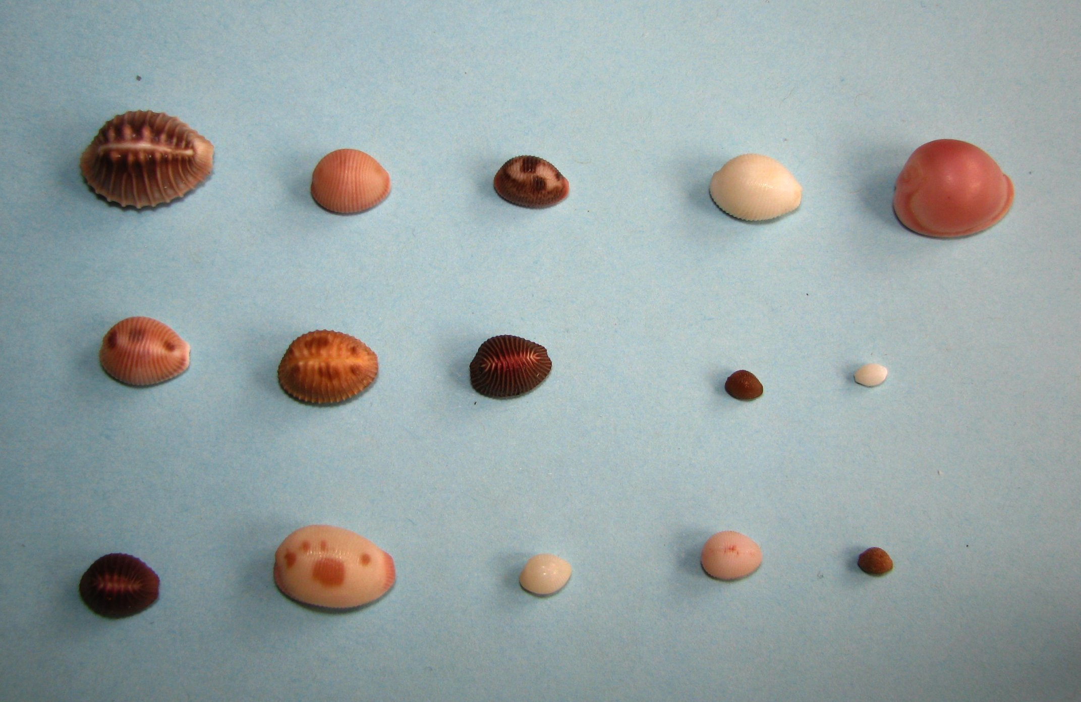 Top Row: 1. Trivia solandri Cabo Tepoca, Sonora, Mexico 2. Trivia europa Sangenjo, Spain (north of Portugal) 3. Trivia pacifica Pedro Gonzales Island, Las Perlas Islands, Panama September, 1976 4. Trivirostra oryza [syn. Trivia oryza] Off Hooks Reef, Queensland, Australia March, 1970 5. Triviella ovulata [syn. Trivia ovulata] Jeffreys Bay, South Africa Middle Row: 6. Trivia monacha [syn. Trivia acuminata] Almería, Spain 7. Trivia pediculus Espírito Santo, Brazil January, 1976 8. Trivia sanguinea Pedro Gonzales Island, Las Perlas, Panama April, 1976 9. Trivia rubescens Bandera Bay, Nayarit, Mexico 10. Trivirostra hordacea [syn. Trivia hordacea] Chun's Reef, Oʻahu, USA October, 1981 (beach collected) Bottom Row: 11. Trivia californiana Cabo Tecopa, Sonora, Mexico 12. Trivia merces Browns Beach, South Australia 13. Trivirostra pellucidula [syn. Trivia pellucidula] Koniya, Amami Islands (south of Japan) 14. Trivia quadripunctata Marathon, Florida, USA 15. Trivia myrae Manzanillo, West Mexico NOTE: I have not collected live shells since the mid-1970's. I believe that the animal itself is much more valuable alive than destroyed for its shell. It is for this reason that I will now only collect beach/forest shells from deceased specimens.